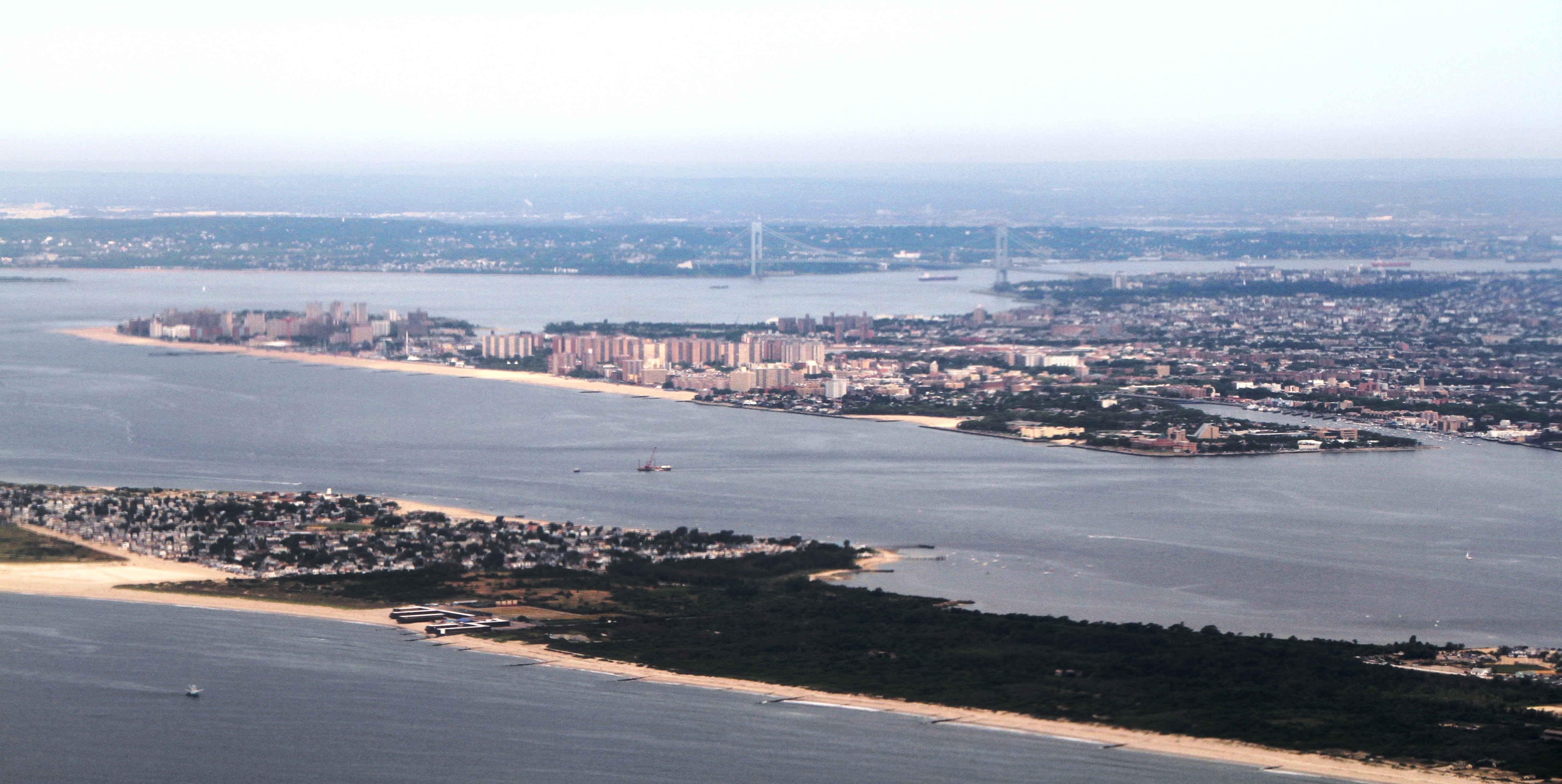 Aerial view of Coney Island, Brooklyn (NY)